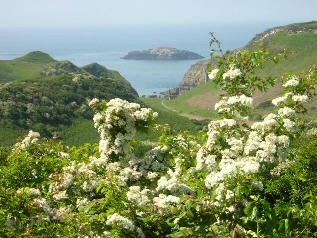 Middle Mouse as seen from the Anglesey mainland by Porth Llanlleiana